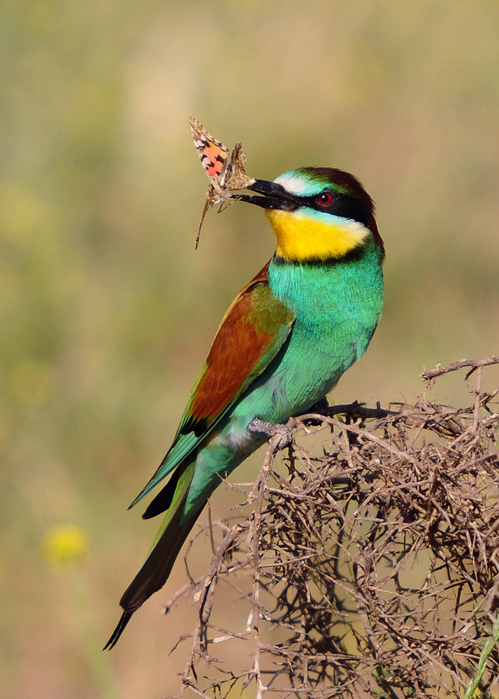 Bee-eater in southeastern Turkey Kurdî: Şahlûr, şalûr, şalûl, mêşxwur